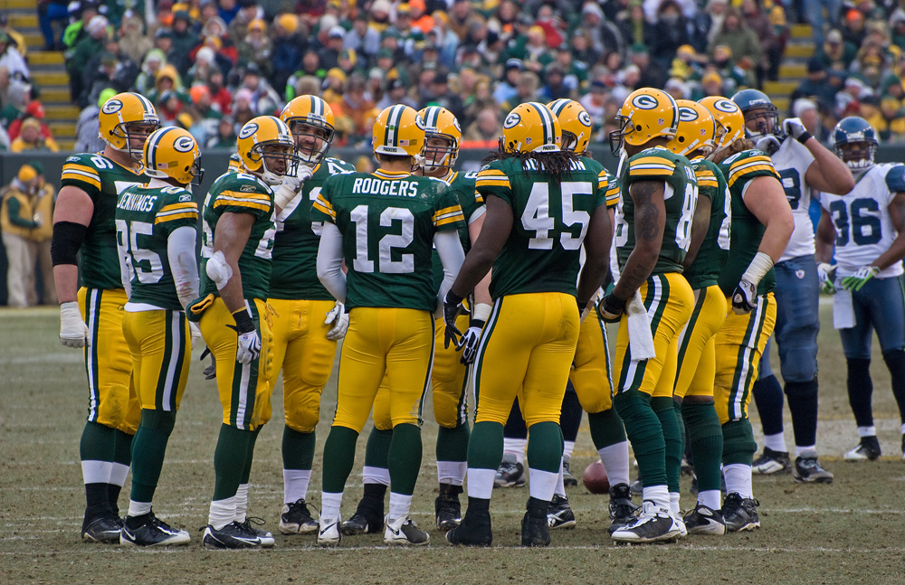 Seattle vs. Green Bay • December 27, 2009 at Lambeau Field in Green Bay, Wisconsin.